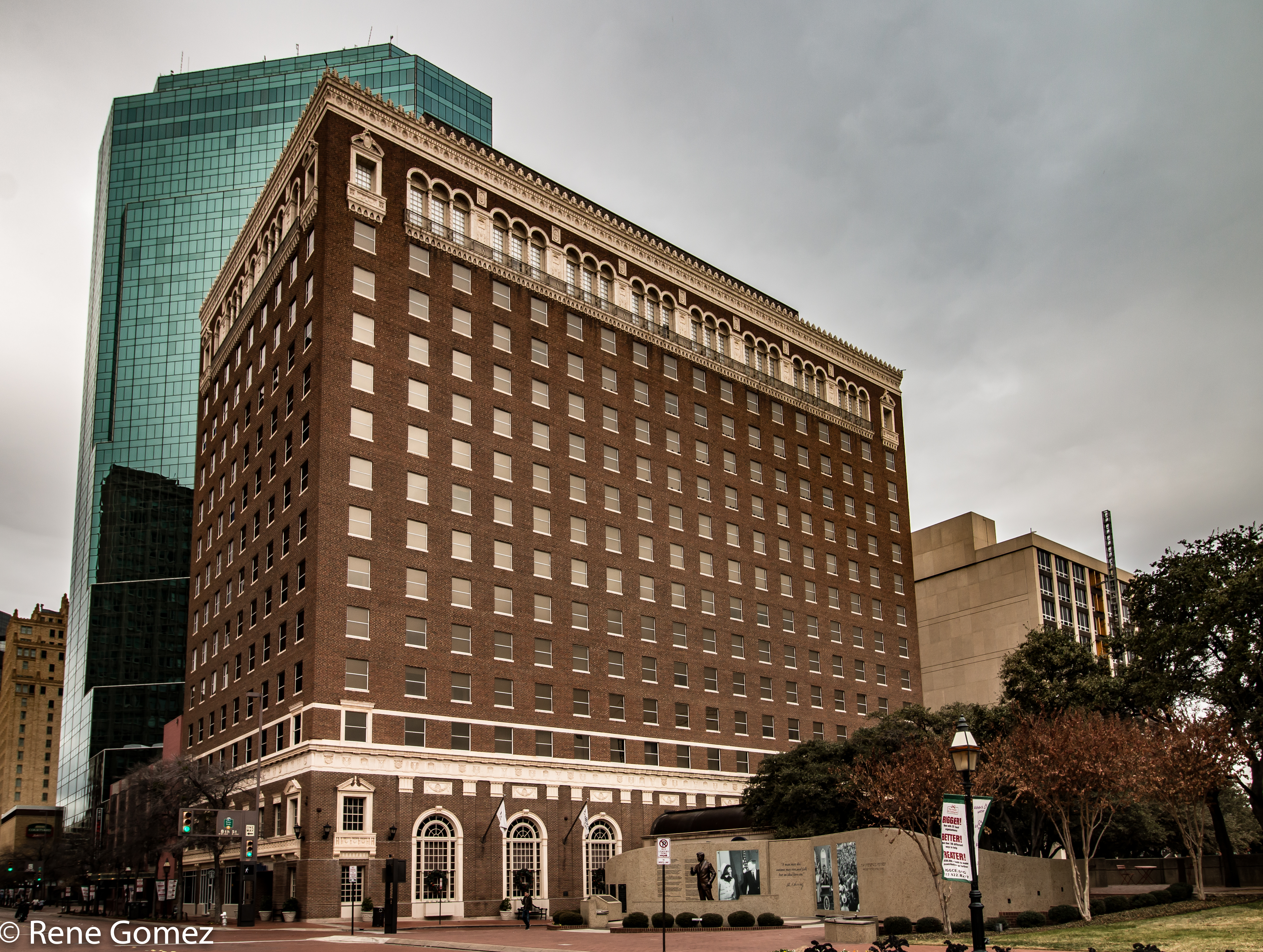 Hotel Texas in Fort Worth, Texas